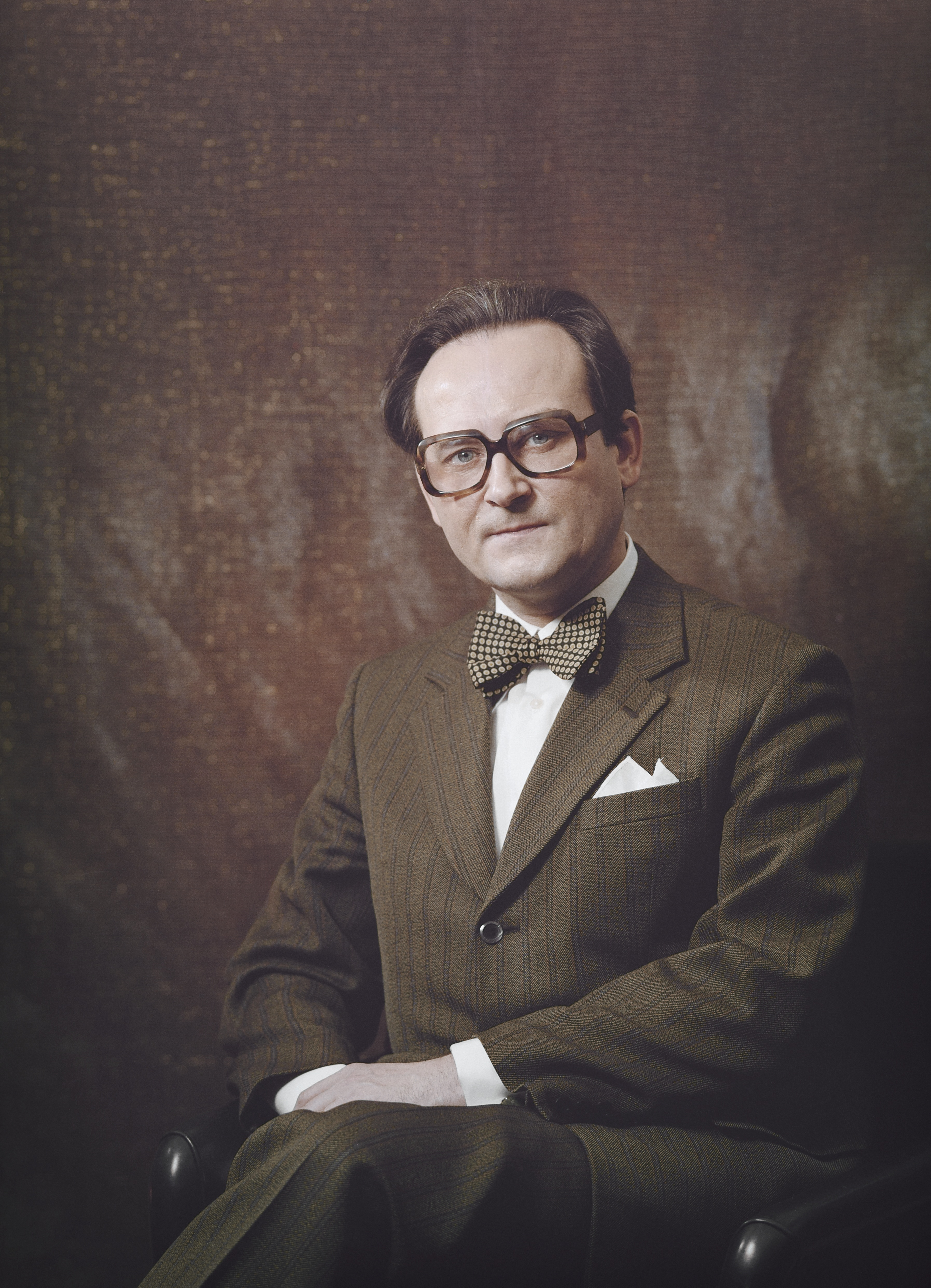 Photograph of the Finnish historian Seikko Eskola (1933–).